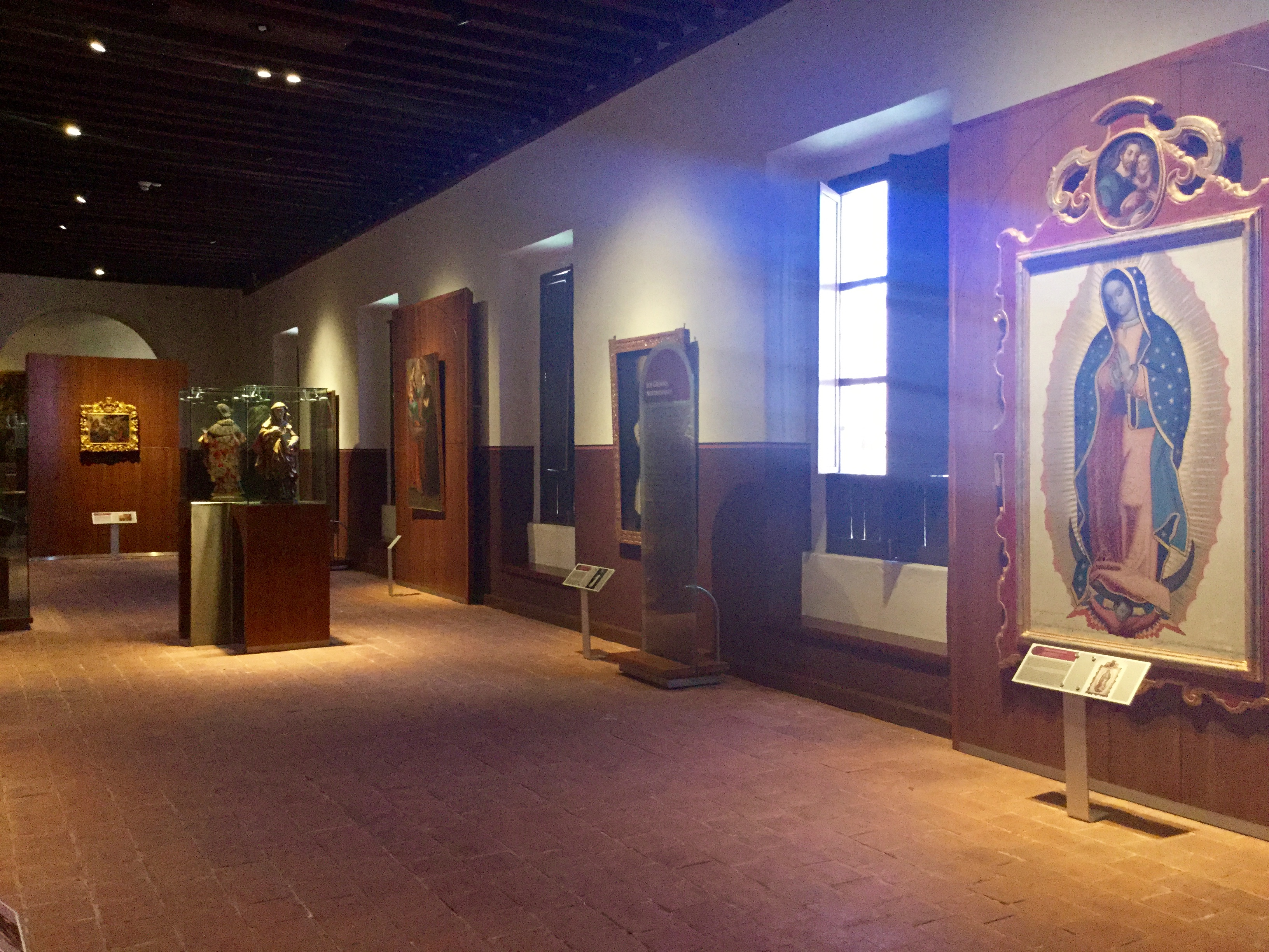 Parte sur de la sala de las Devociones Novohispanas